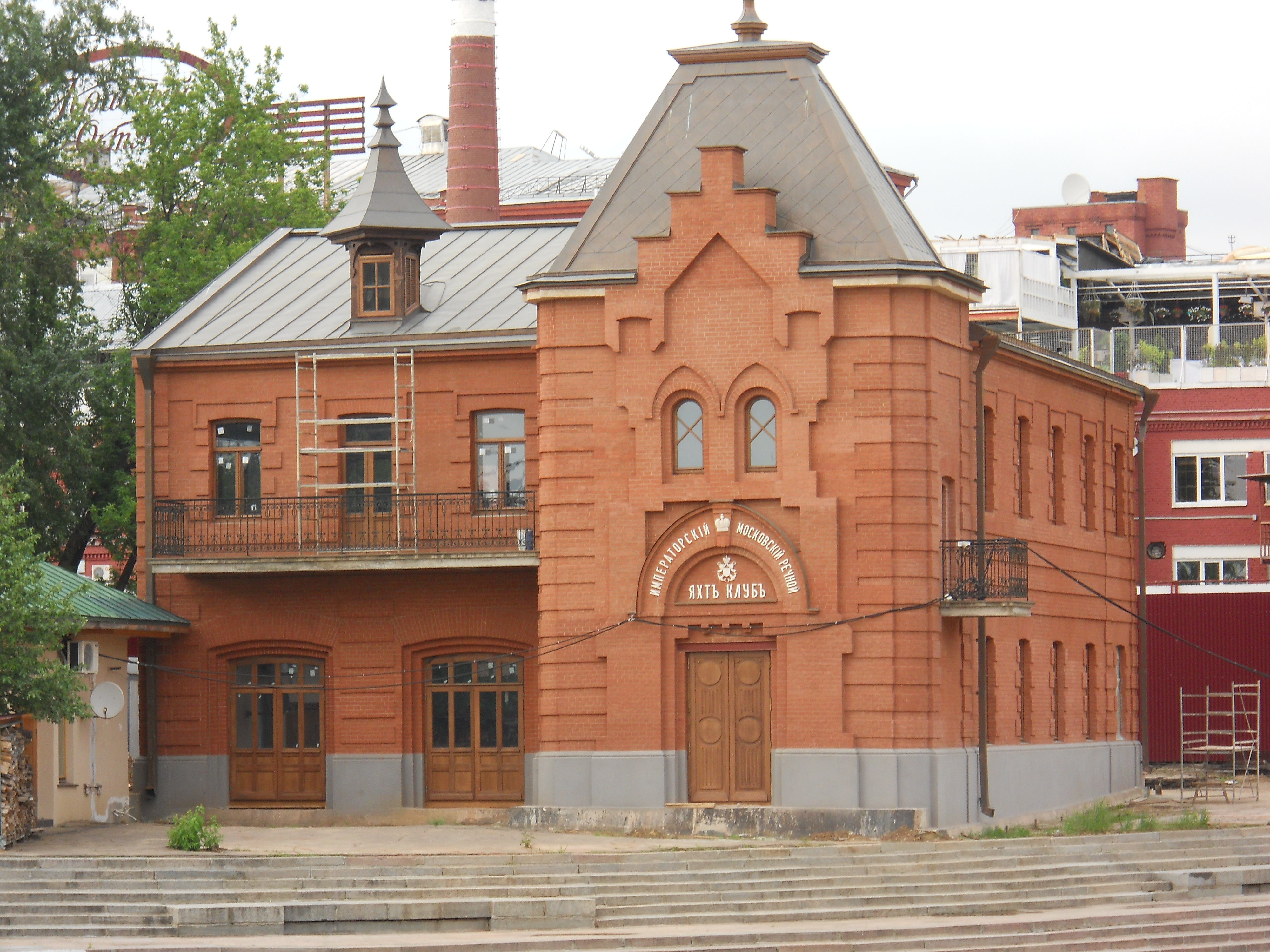 Former yacht club on the tip of Bersenevka island, Moscow.